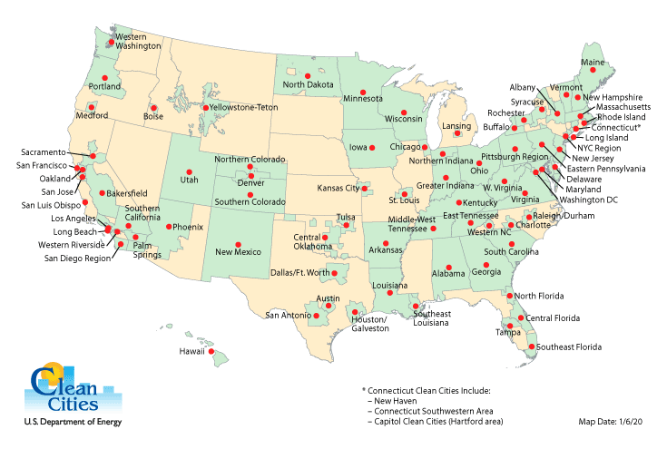 A map of the continental U.S. showing the locations of U.S. DOE Clean Cities coalitions in early 2020.